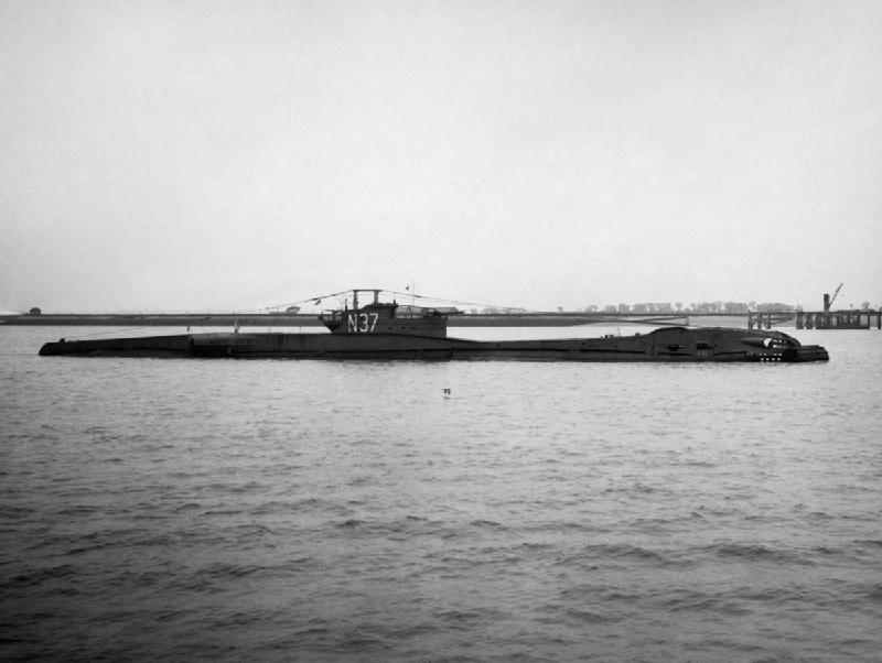 British T class submarine HMSM THRASHER underway.